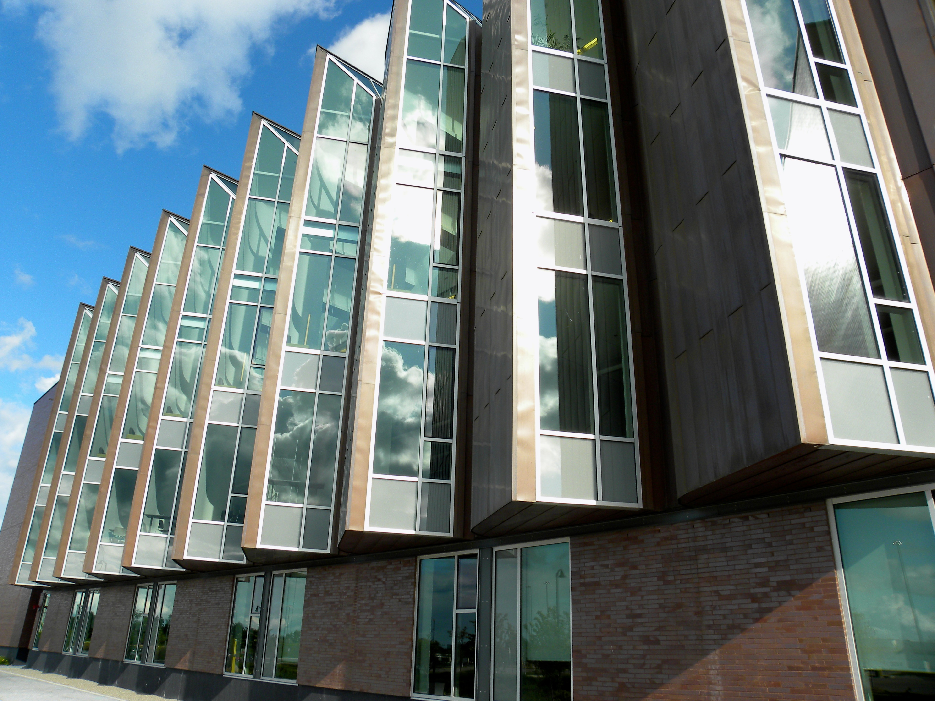 The new academic library opened at Centennial College's Progress Campus in 2011.